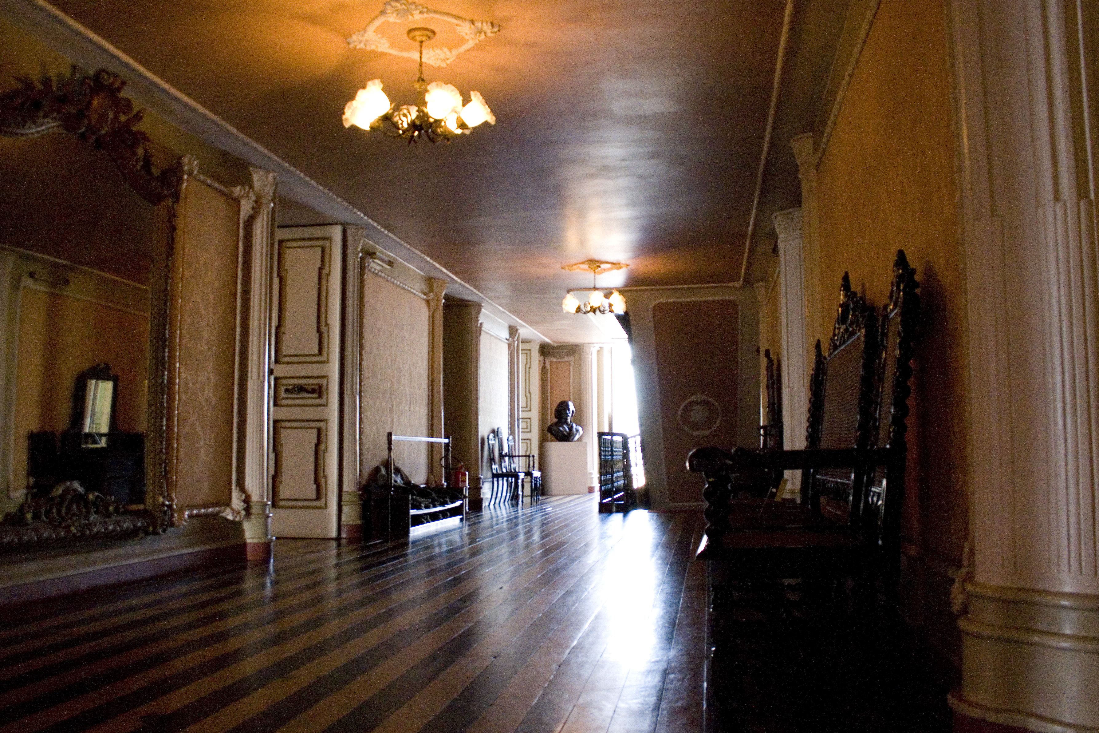 Amazonas Theater Museum